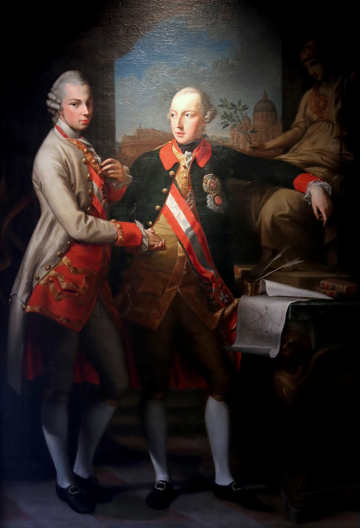 Portrait of Emperor Joseph II (right) and his younger brother Grand Duke Leopold of Tuscany (left), who would later become Holy Roman Emperor as Leopold II. Pompeo Batoni 1769.